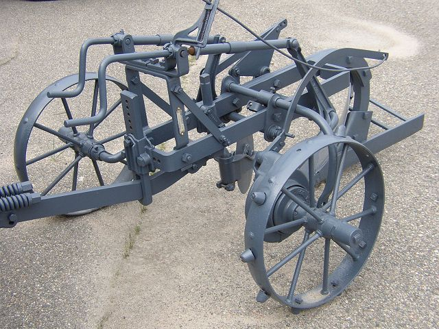 Land reclamation plough from around 1930